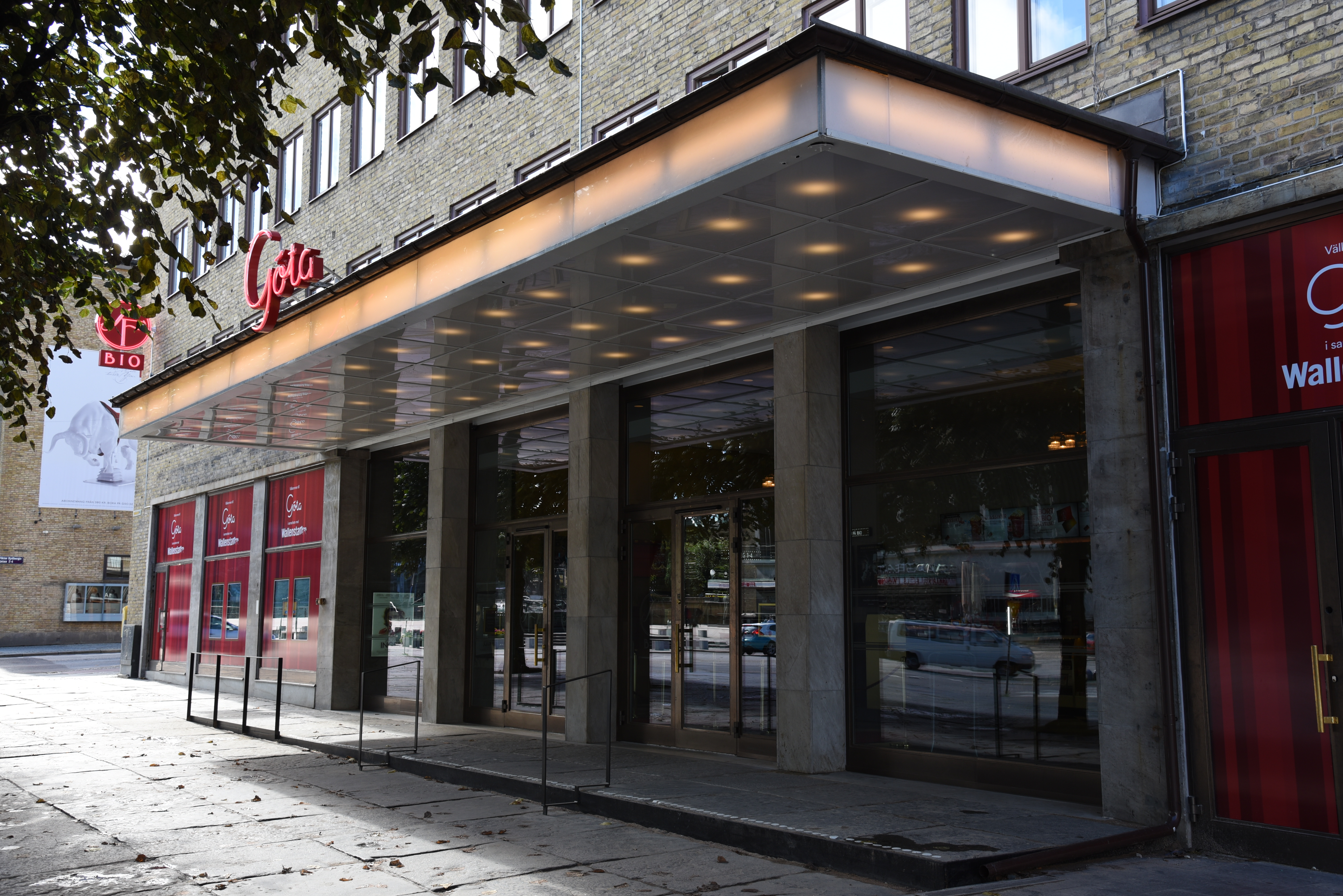 The cinema Göta at Götaplatsen 9 in central Gothenburg. The cinema was re-opened on the 4 September 2015.